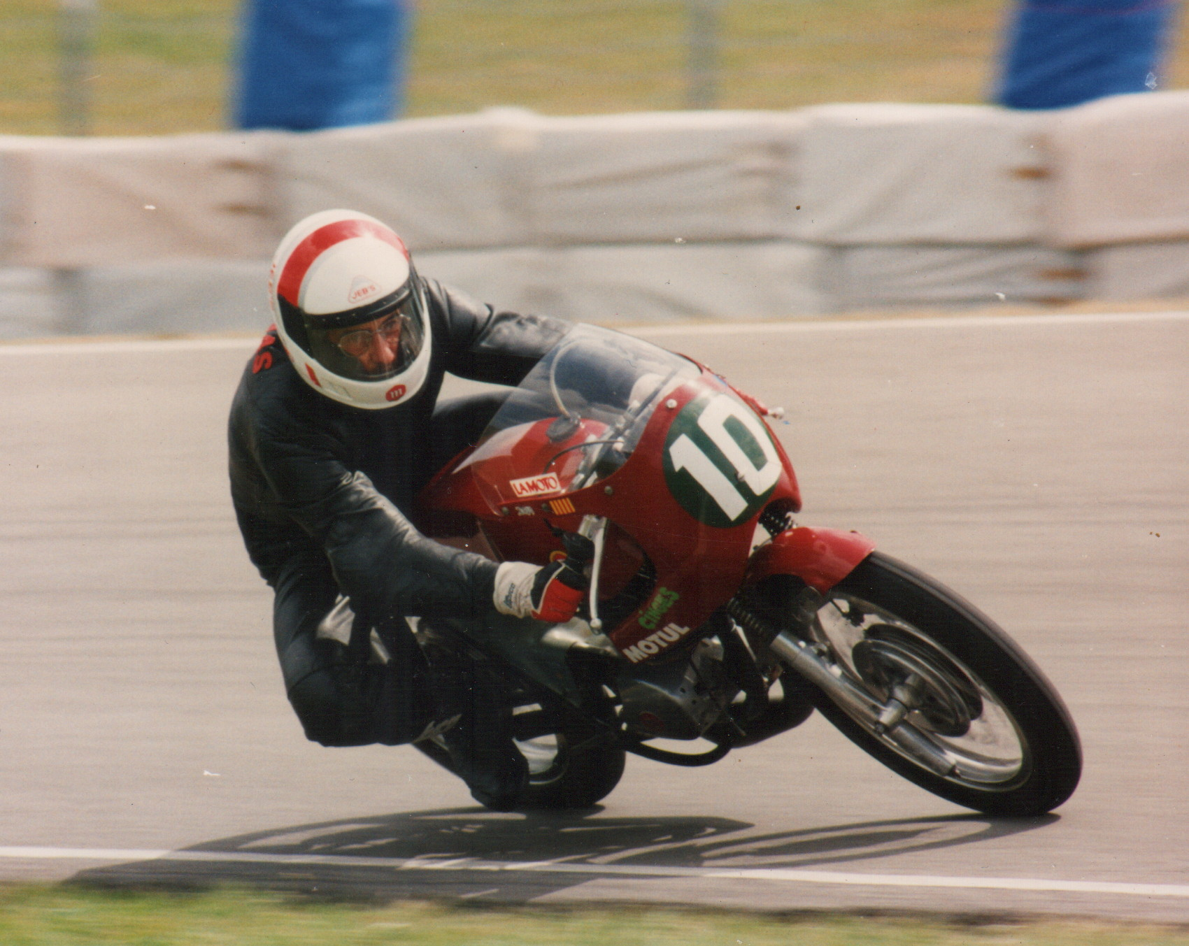 Jordi Fornas at Dutch TT (Assen, the Netherlands) on his Montesa Impala 250 Blitz (1992)